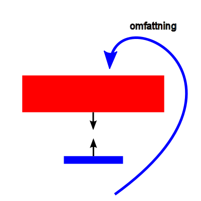 Envelopement i military tactics (in swedish)